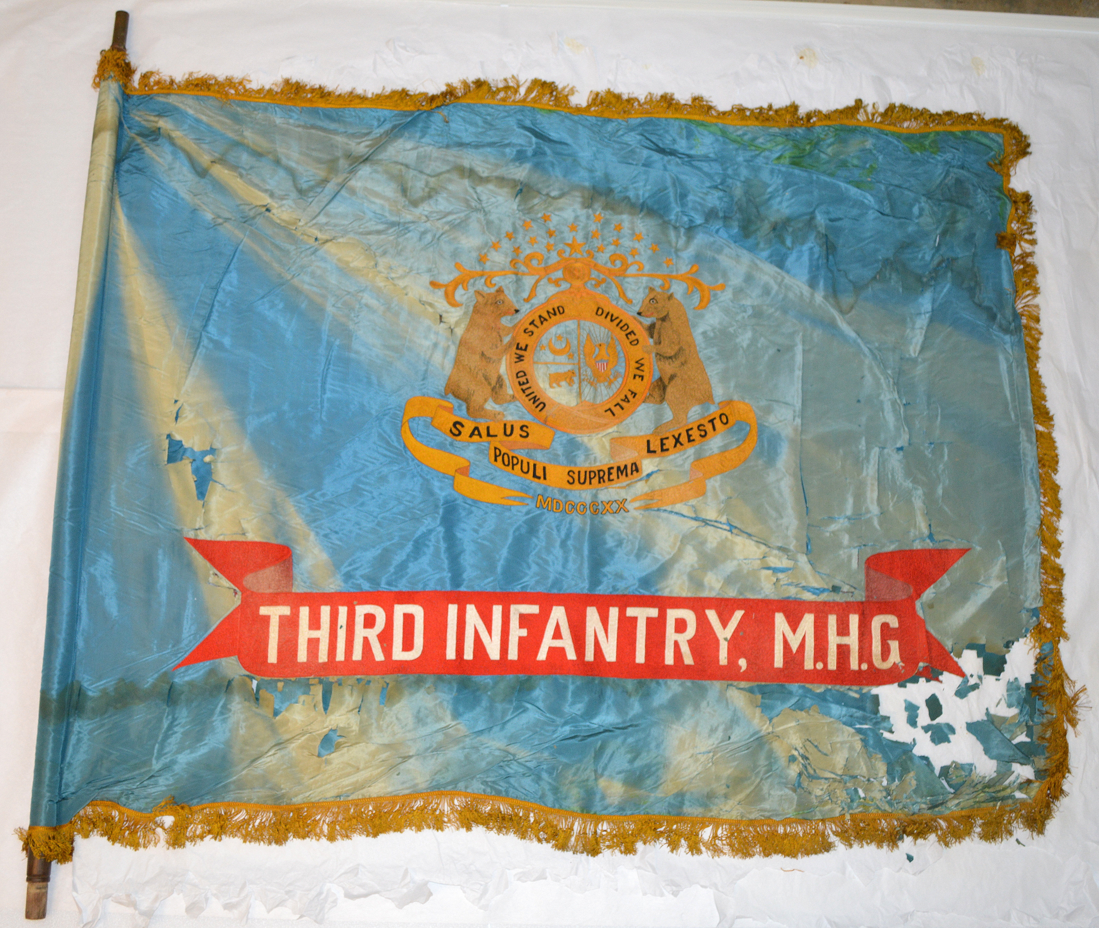 Regimental colors of the 3rd Infantry, Missouri Home Guards. Flag is blue silk, the design is repeated on both sides. The flag has embroidered, the Missouri State Seal and a red embroidered banner with "THIRD INFANTRY, M.H.G" in white on the design. Title: Regimental Colors of the 3rd Infantry, Missouri Home Guard